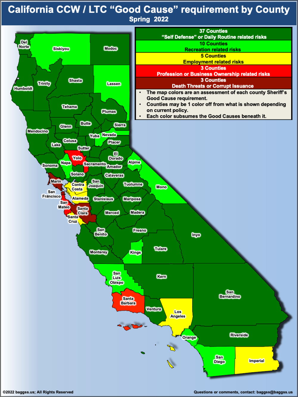 Map of CA CCW "Good Cause" standards by county (including some cities). Color coding represents a range of policies, varying from Self Defense = Good Cause to No Issue.